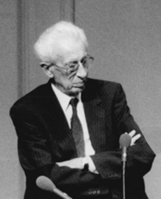 (crop -Bundesarchiv Bild 183-1989-0920-033, Miep und Jan Gies) ADN-ZB Schindler 20.9.89 Berlin: Erinnerungen an Anne Frank In der Akademie der Künste las die Niederländerin Miep Gies aus ihrem Buch "Meine Zeit mit Anne Frank". Mitte: ihr Mann Jan [Gies]. Abgebildete Personen: Miep Gies, Schriftstellerin, Autorin, Niederlande (GND 118826204)